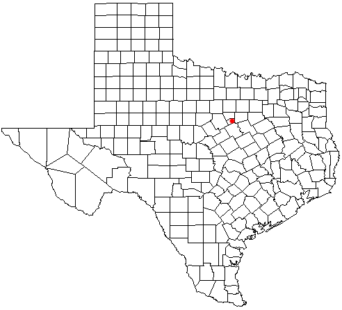 Nemo, Texas location map; created with the GIMP. Made by User:Acntx.